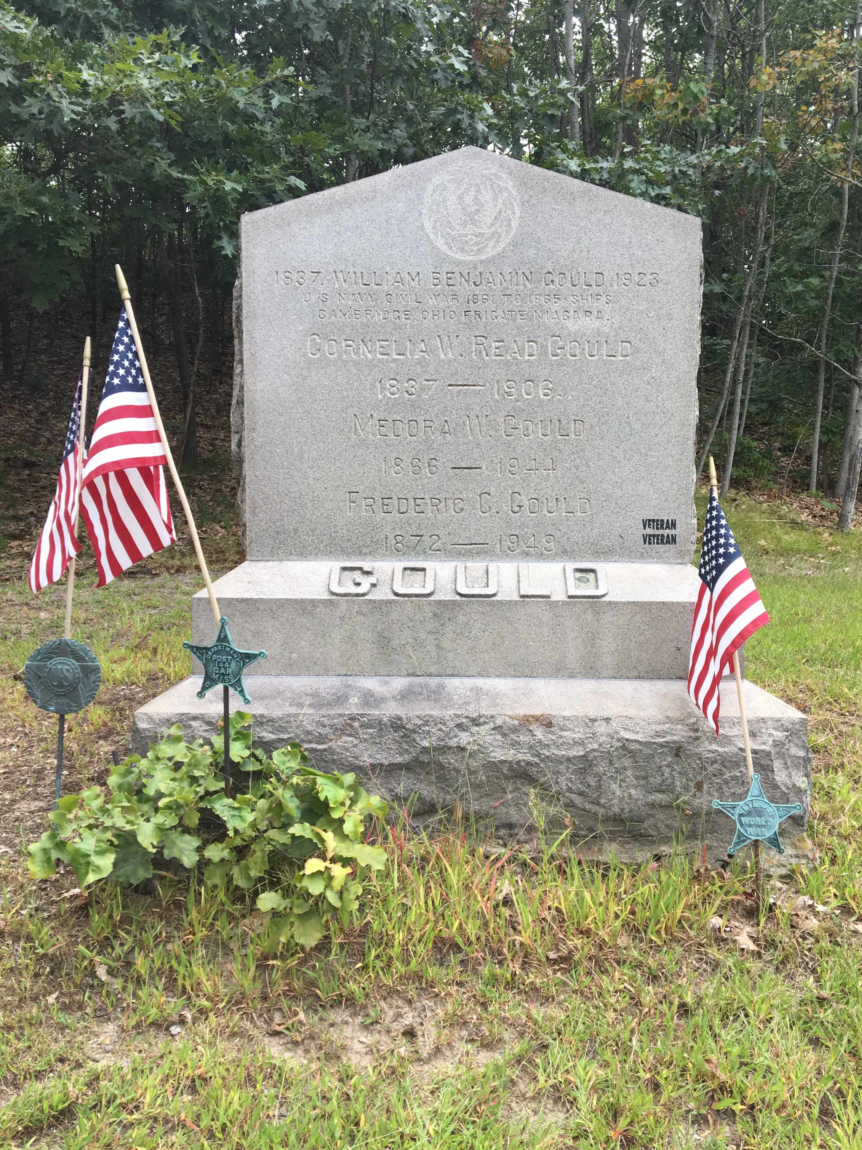 Gravestone of William B. Gould I at Brookdale Cemetery in Dedham, Massachusetts